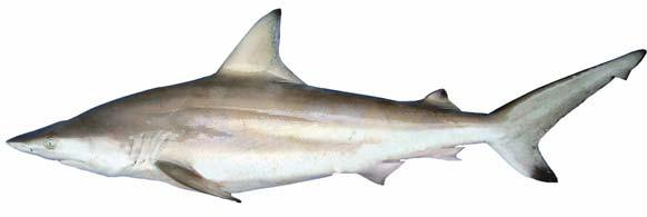 Blacktip shark (Carcharhinus limbatus)